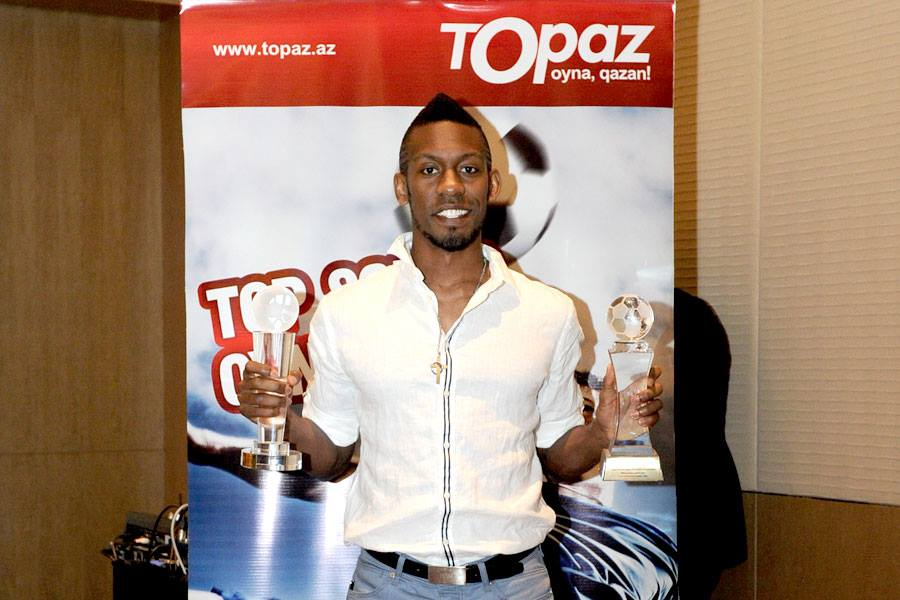 William Oluremi John (Con Oluremi) accepting the December and March Goal of the month awards.